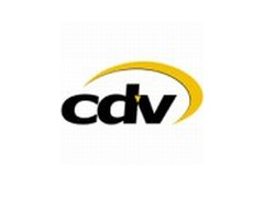 Logo grom cdv Software Entertainment